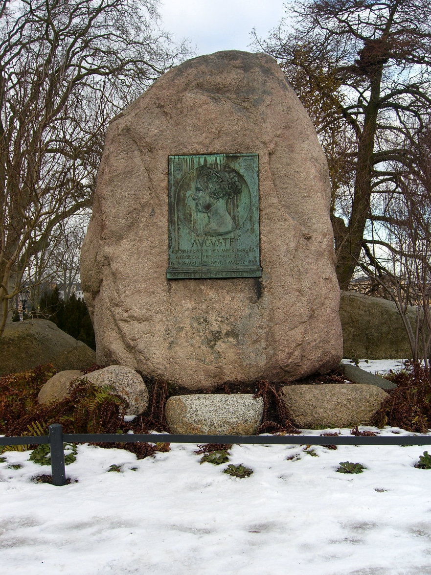 Memorial to Großherzogin Auguste, first wife of Friedrich Franz II, Grand Duke of Mecklenburg-Schwerin, plaque 1904/05 by Wilhelm Wandschneider